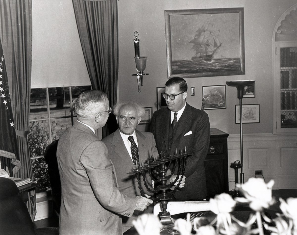 Original Caption: Photograph of President Truman in the Oval Office, evidently receiving a Menorah as a gift from the Prime Minister of Israel, David Ben-Gurion (center), and Abba Eban, the Ambassador of Israel to the United States.: 05/08/1951